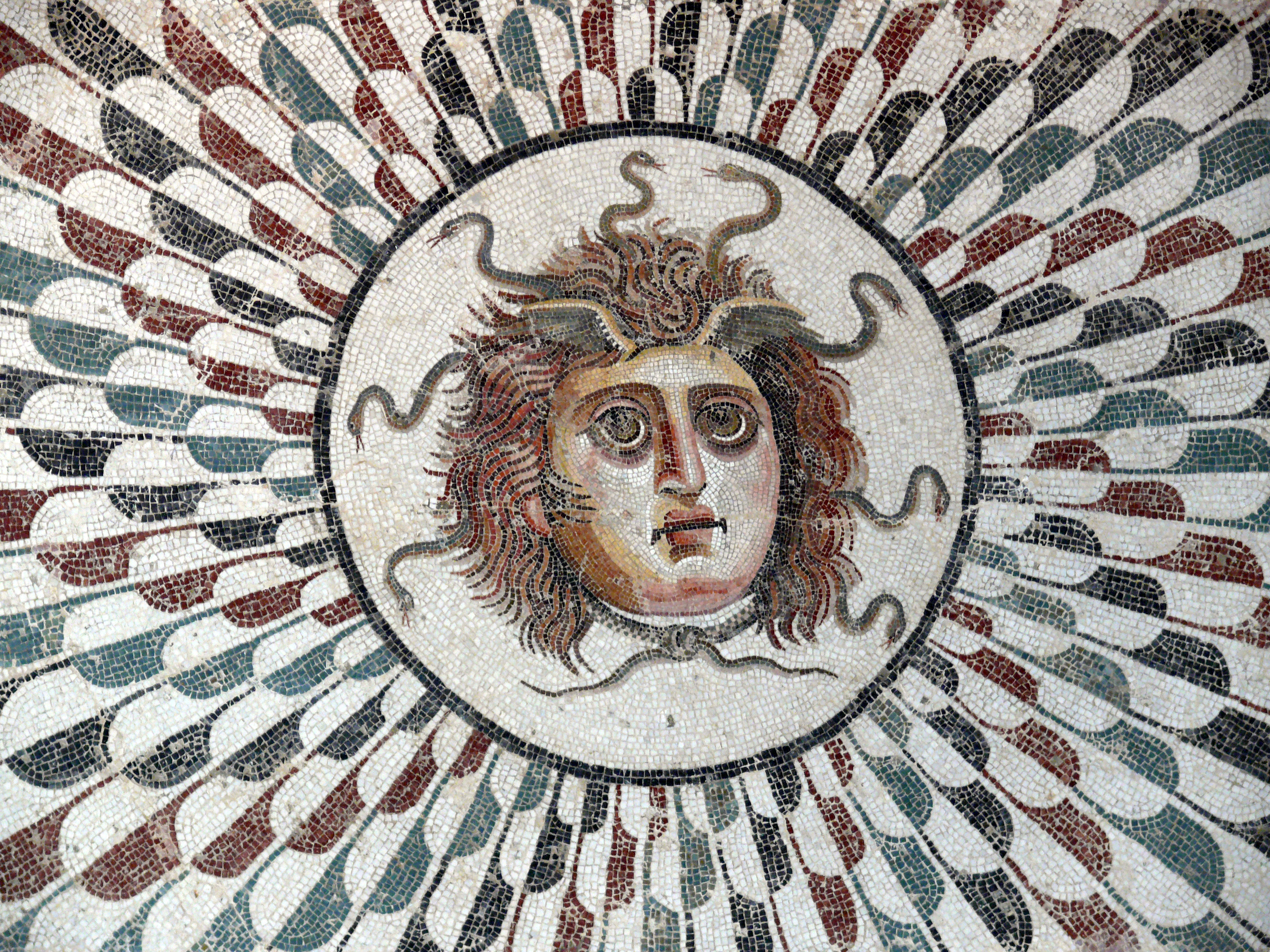 Mosaic with the symbol of horror and dread: head of a Gorgon, with a penetrating gaze surrounded by snakes and with two wings on her brows. Second half second century Tepidarium of Dar Zmela house Archeological Museum of Sousse